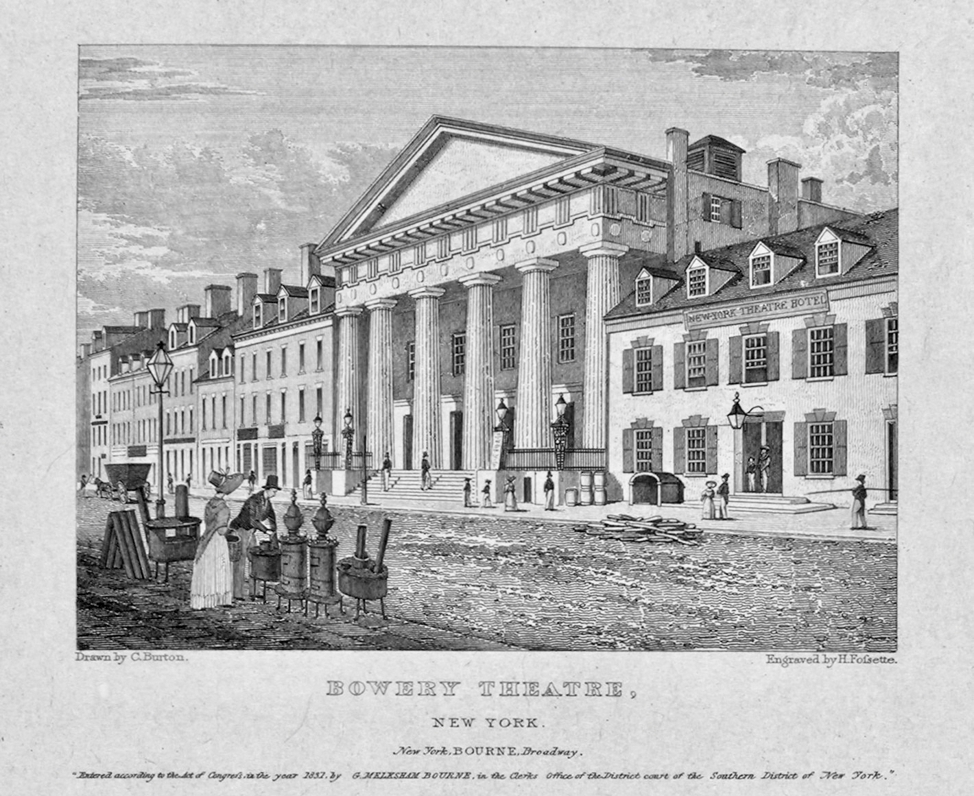 The Bourne Views of New York. New York: George Melksham Bourne, 1830–1831: Bowery Theatre, New York. This is a retouched picture, which means that it has been digitally altered from its original version. Modifications: file format changed from tif to jpg; rotated; color- and light-adjusted; blemishes removed.